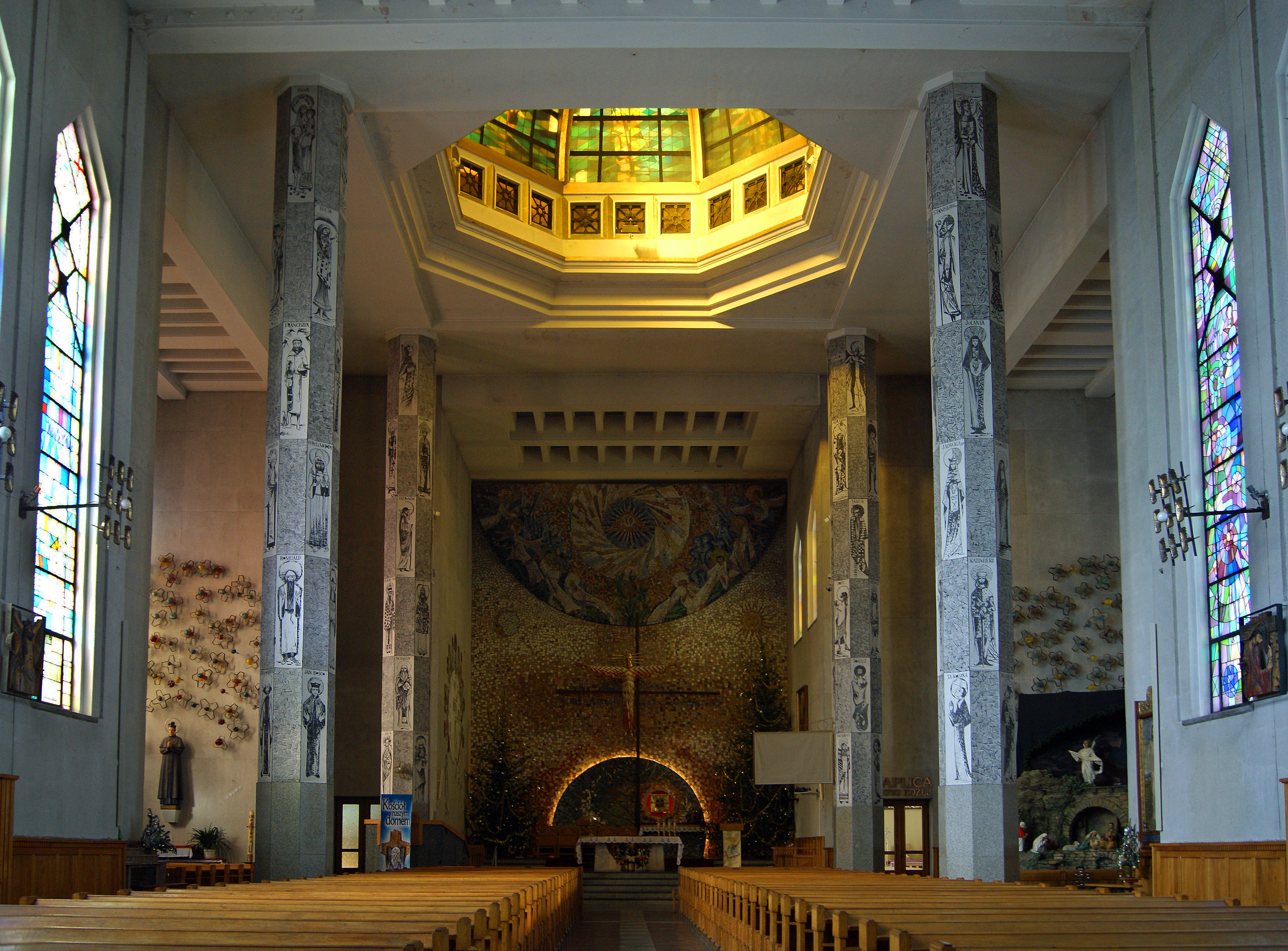 St. Stanislaus Kostka Church (interior), 6 Konfederacka street, Debniki, Krakow, Poland